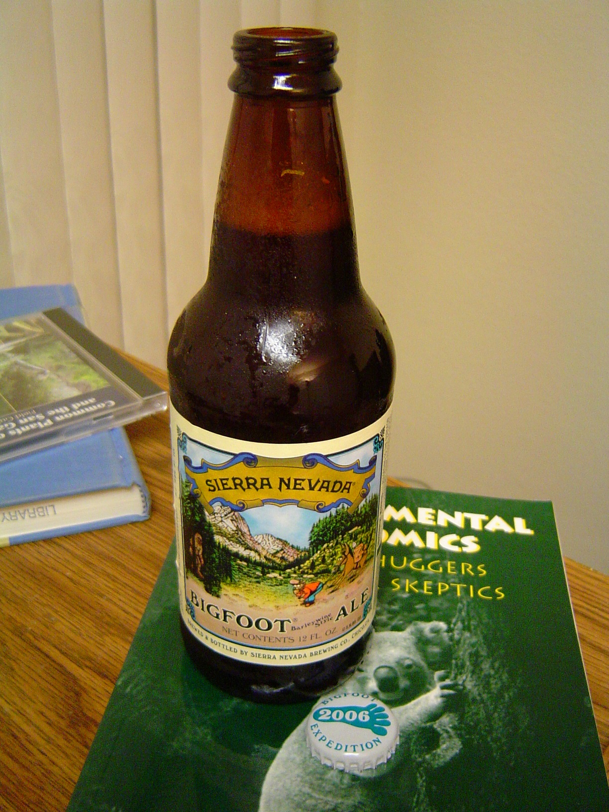 A bottle of Sierra Nevada Bigfoot - Barleywine Style Ale,2006 Edition originally purchased at brewery.